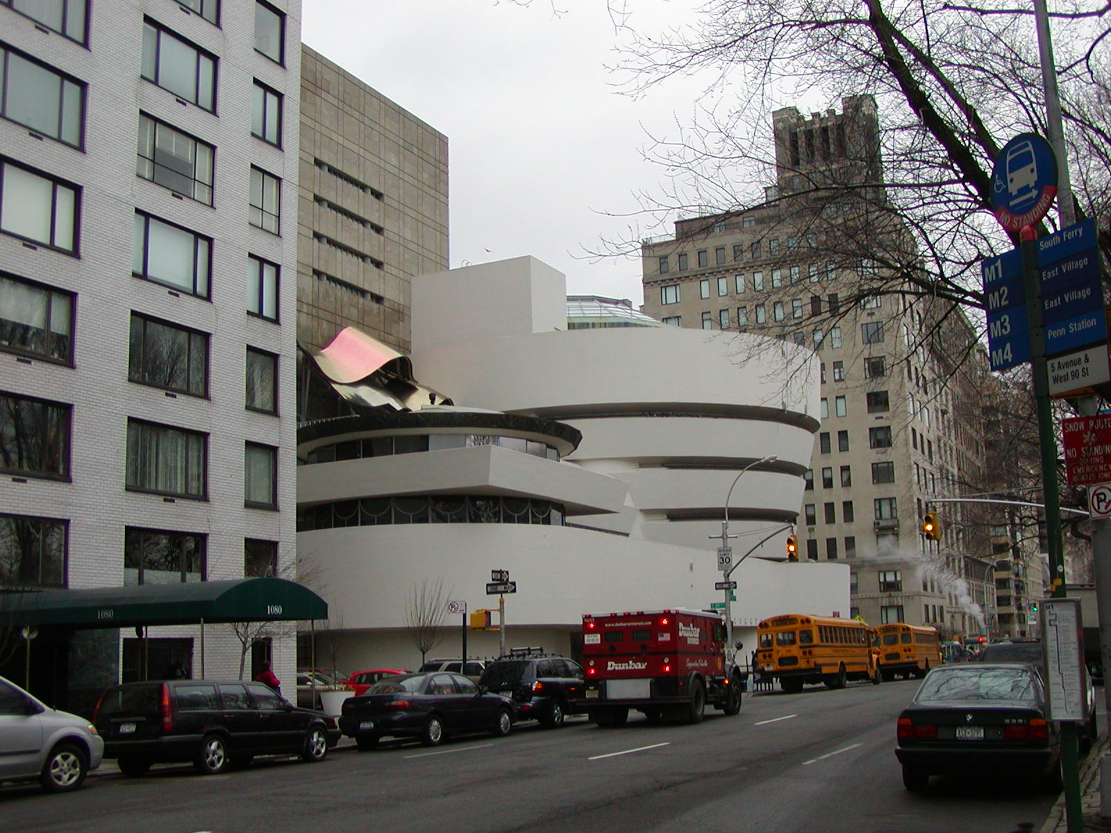 Frank Lloyd Wright's Solomon R. Guggenheim Museum on Fifth Avenue in Manhattan New York City. Photograph by Leena Hietanen March 2005.